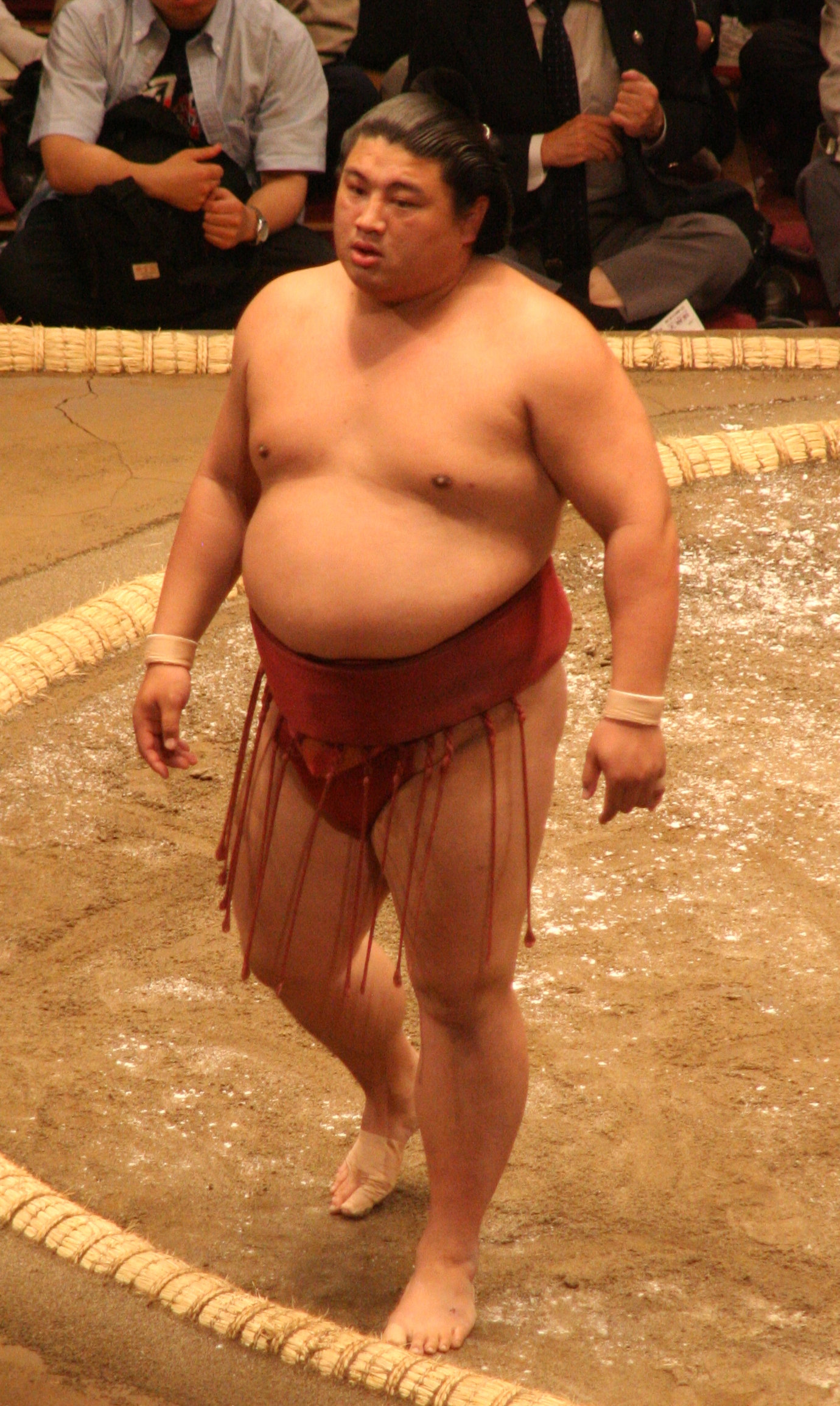 First day of 2009 May Sumo Tournament in Tokyo, Japan - Yoshikaze